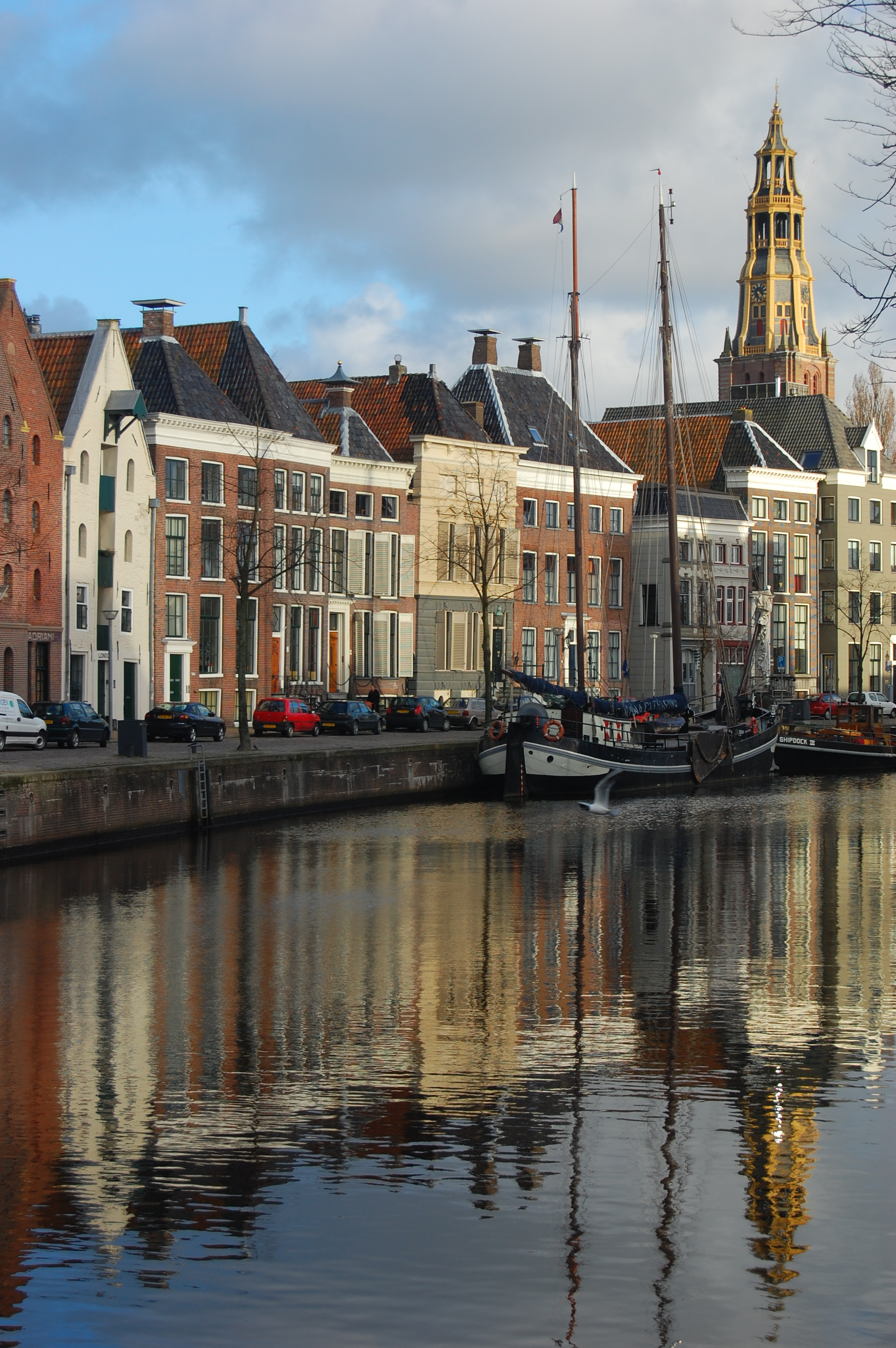 Old warehouses along the Hoge der Aa canal in the city of Groningen, the Netherlands. In the background, the tower of the A-kerk (A-church) can be seen